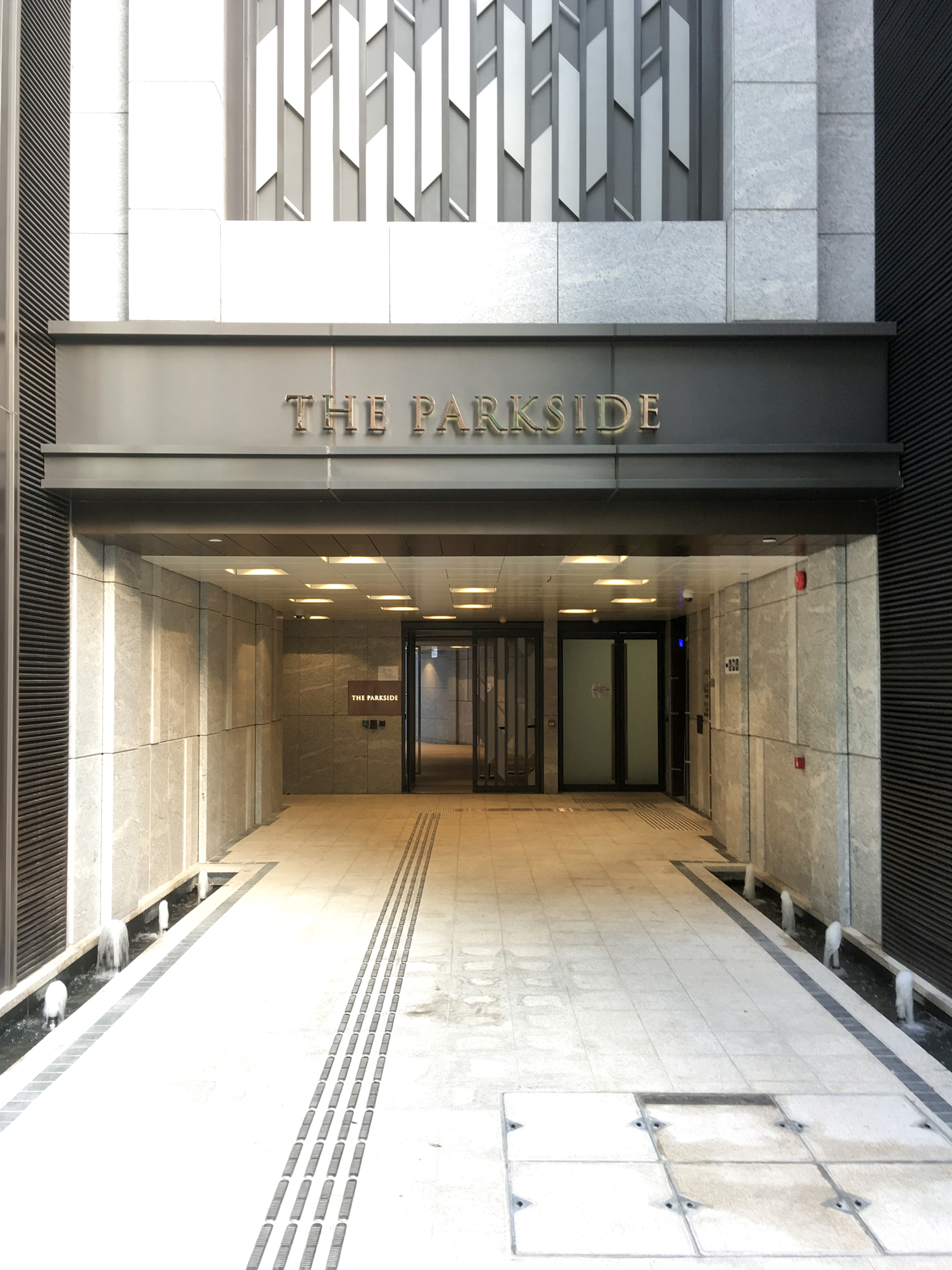 The Parkside Place Central Avenue Entrance